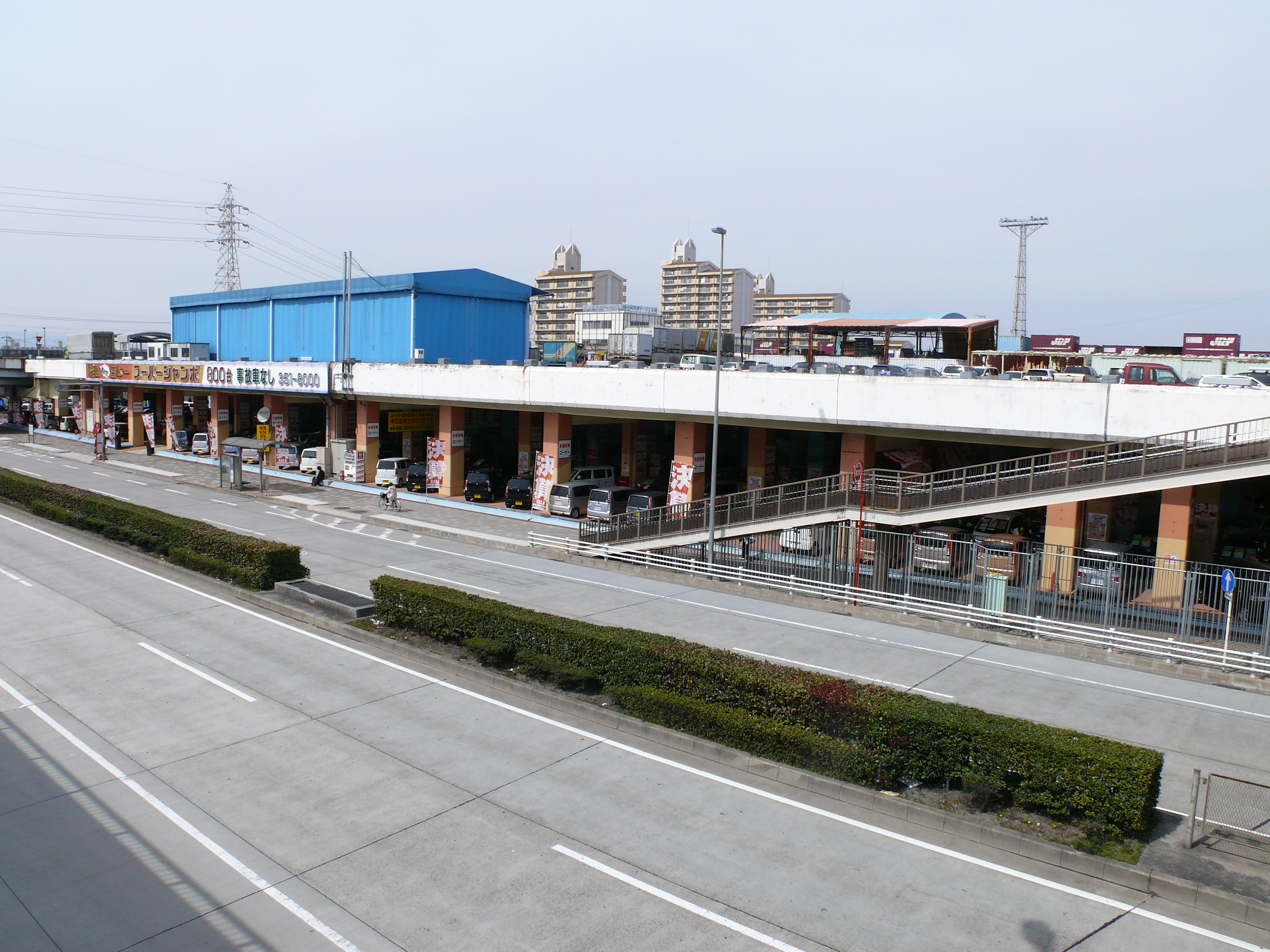 Super-jumbo of Kei car Sales in Nagoya Photo by Gnsin 16, March 2007 On the Super-jumbo of Kei car Sales